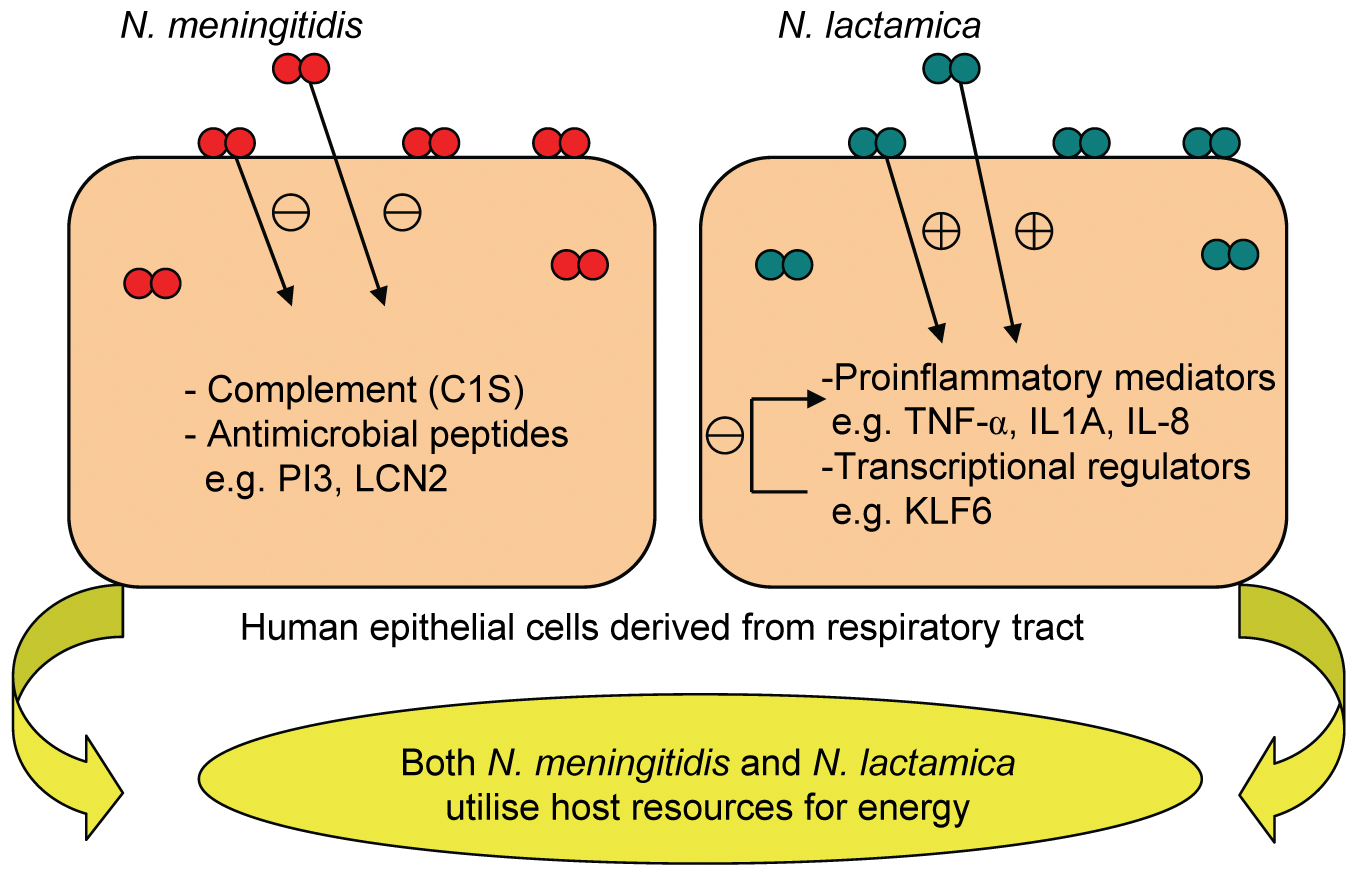 The photo represents differences in early colonisation stages of N. meningitidis and N. lactamica